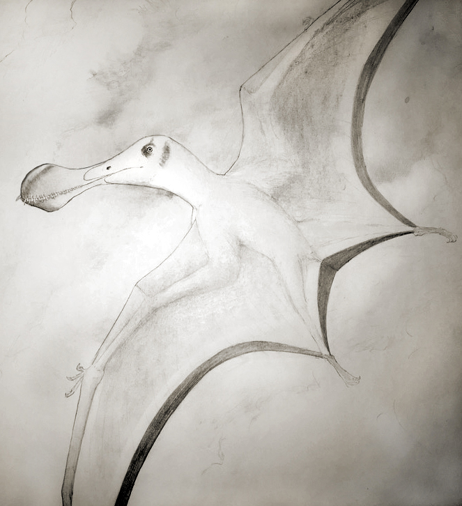 Coloborhynchus fluviferox (Pterosauria:Ornithocheiridae) from the middle Cretaceous of Morocco, North Africa. Pencil and charcoal on paper by Nick Longrich. Additional digital editing by Nick Longrich.